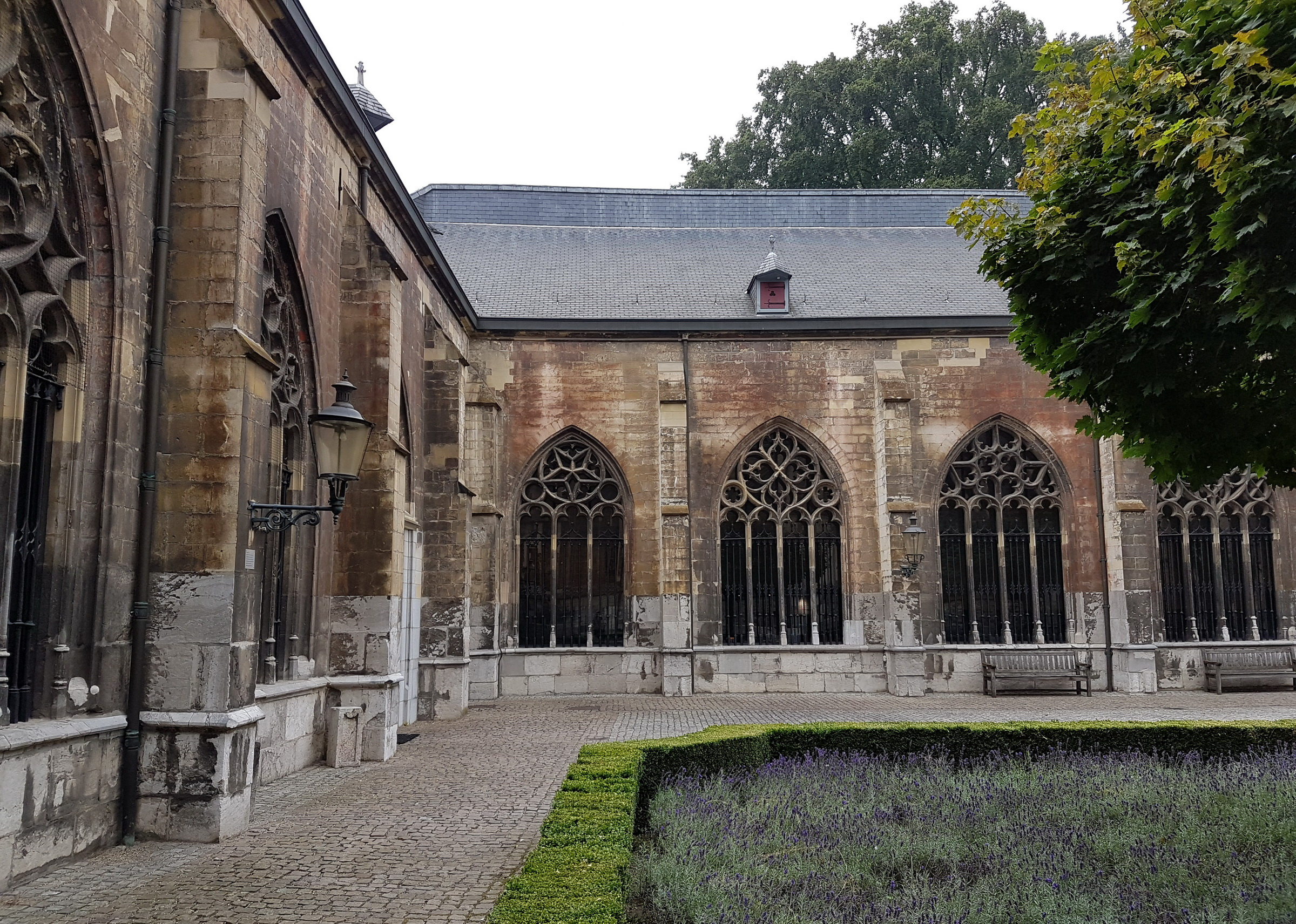 View from the south of the cloister yard and a row of late Gothic tracery windows in the west and north wing of the cloisters of the Basilica of Saint Servatius in Maastricht, the Netherlands.